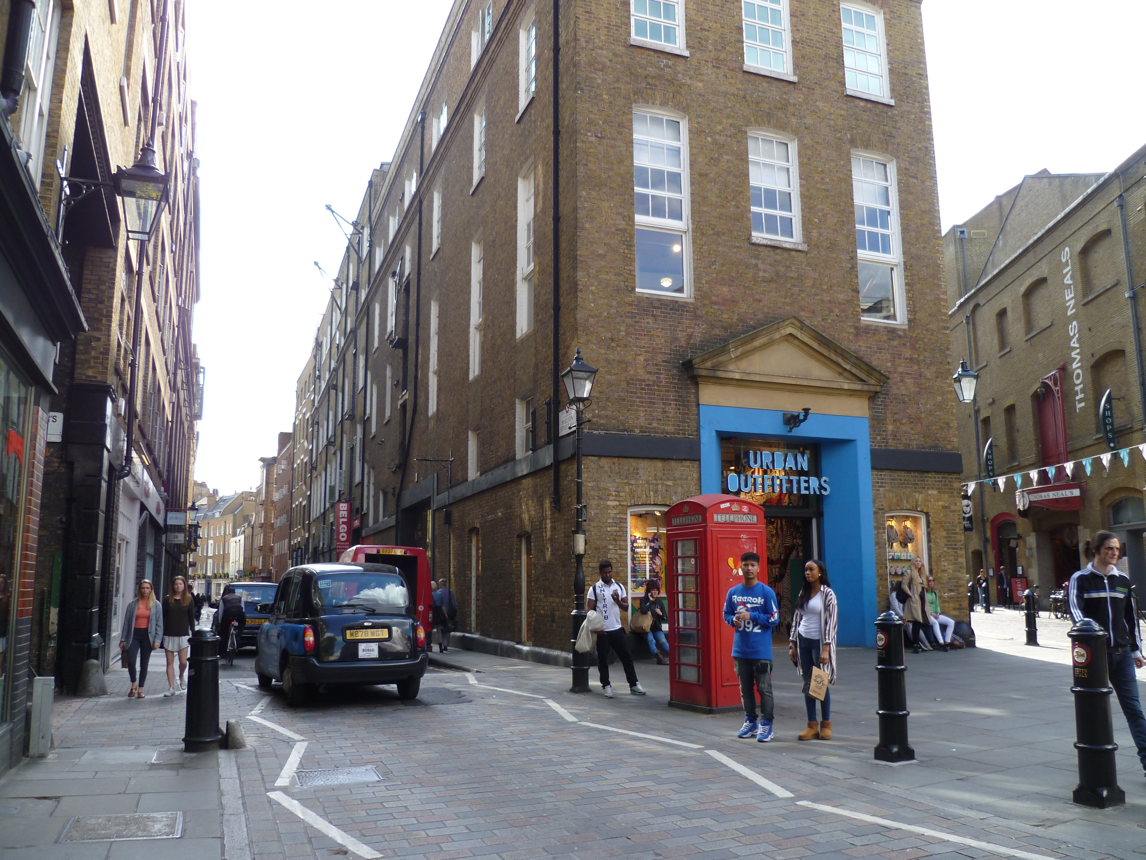 Urban Outfitters, Shelton Street, Covent Garden